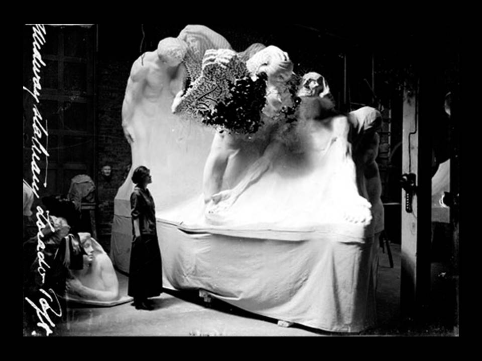 Fountain of Time in Lorado Taft Midway Studio in the Woodlawn community area of .